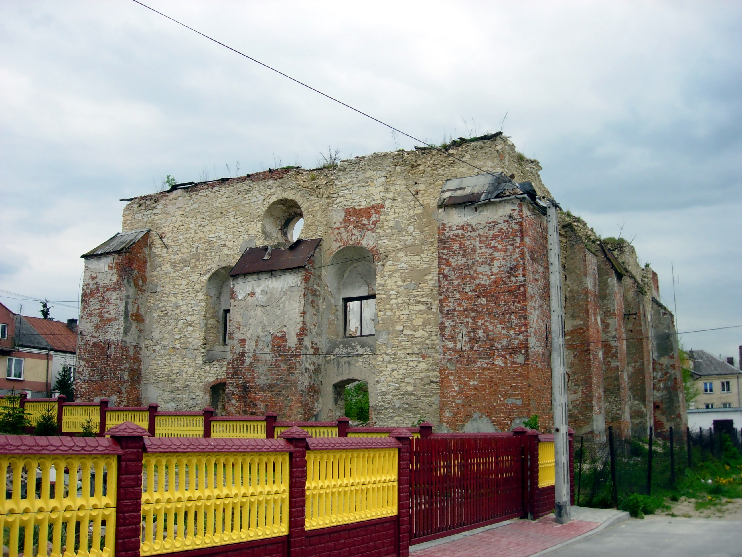 The ruins of the synagogue in Wodzisław, Świętokrzyskie Voivodeship, Poland